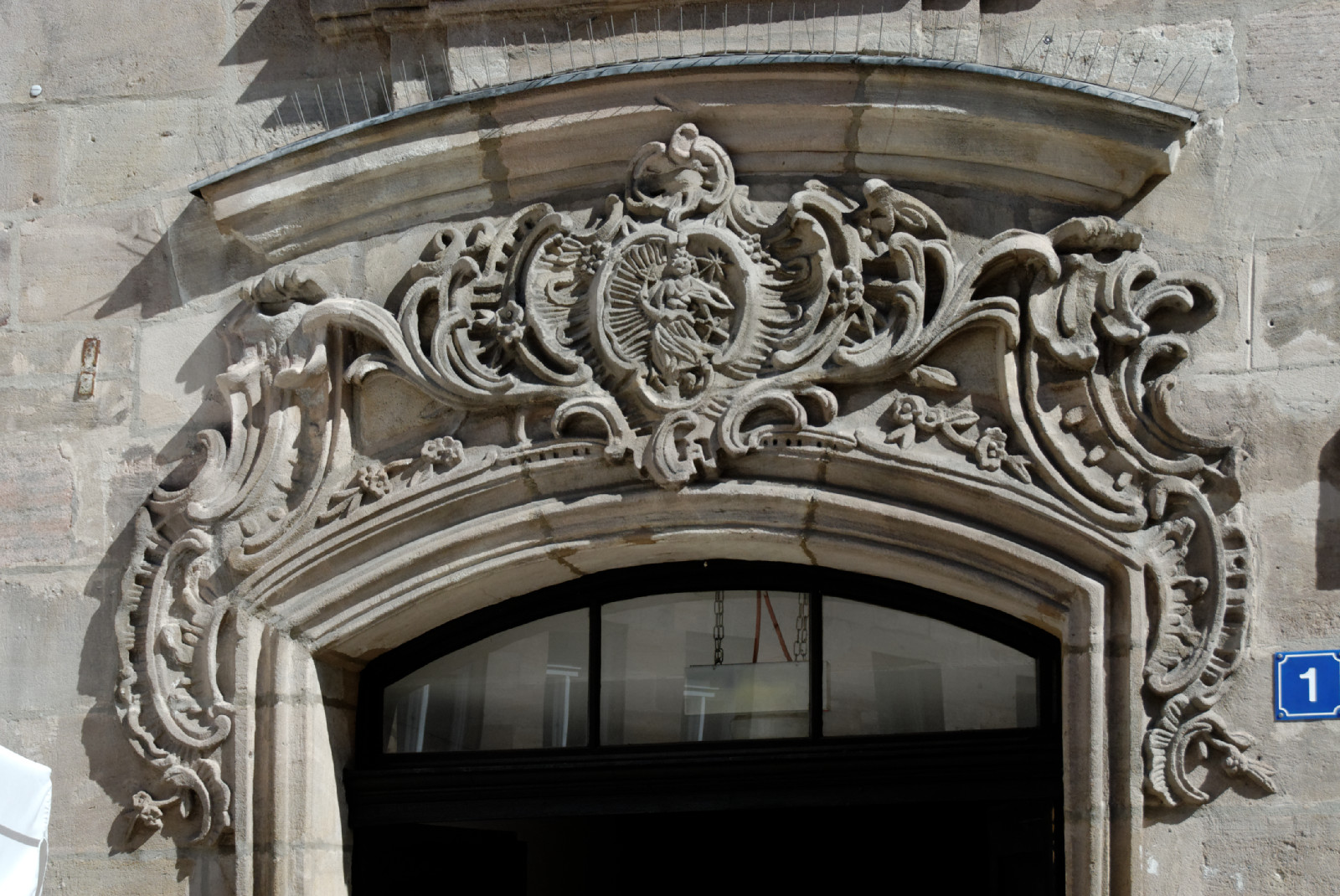 Arch at house Alexanderstraße 1 in Fürth, Germany